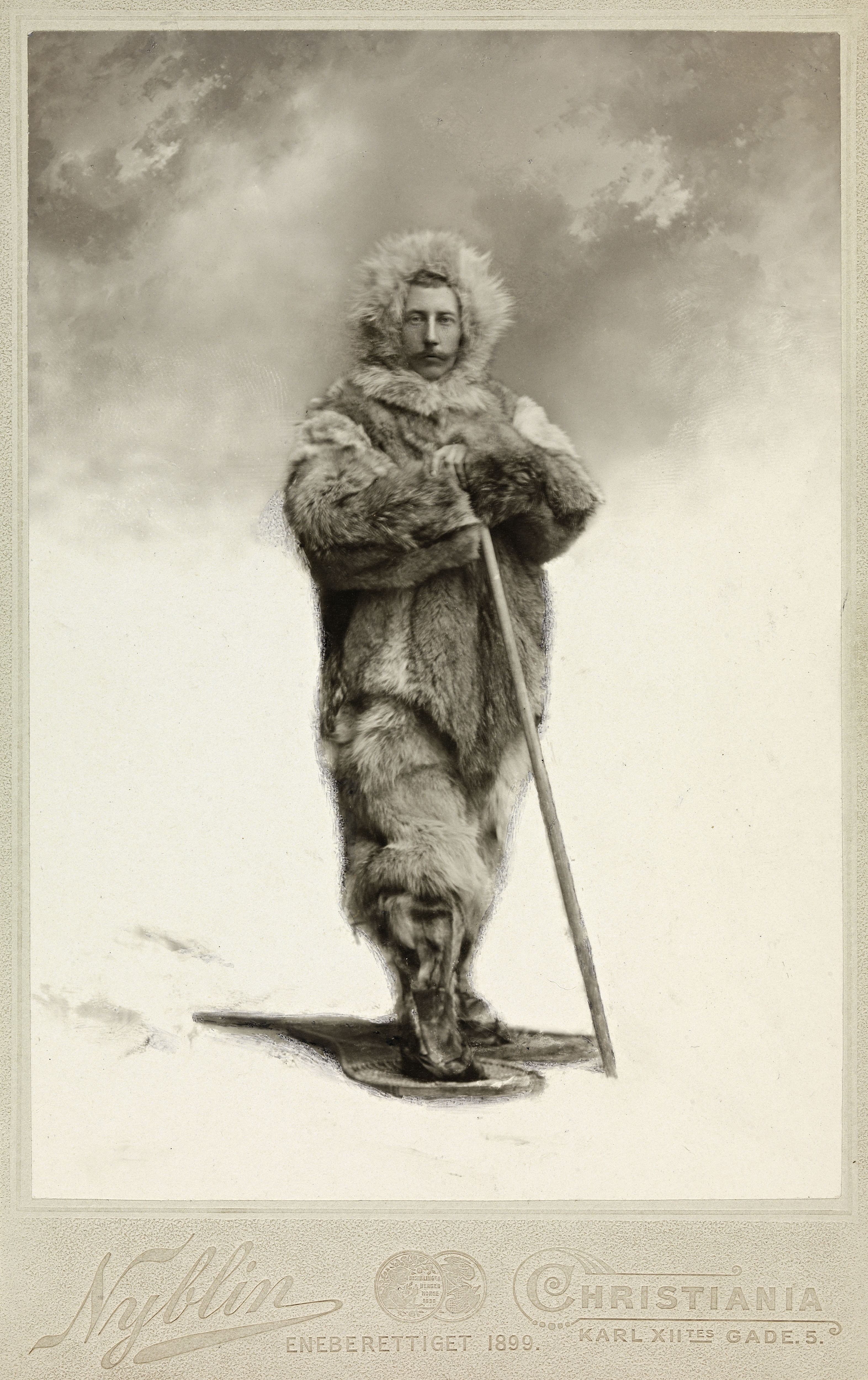 Motiv / Motif: Roald Amundsen i polarutstyr etter hjemkomsten fra den belgiske antarktisekspedisjon 1897-1899. Kabinettkort / Cabinet card. Dato / Date: juni 1899 Fotograf / Photographer: Daniel Georg Nyblin (1826-1910) Sted / Place: Oslo Eier / Owner Institution: Nasjonalbiblioteket / National Library of Norway Lenke / Link: Bildesignatur / Image Number: bldsa_NBRA0005